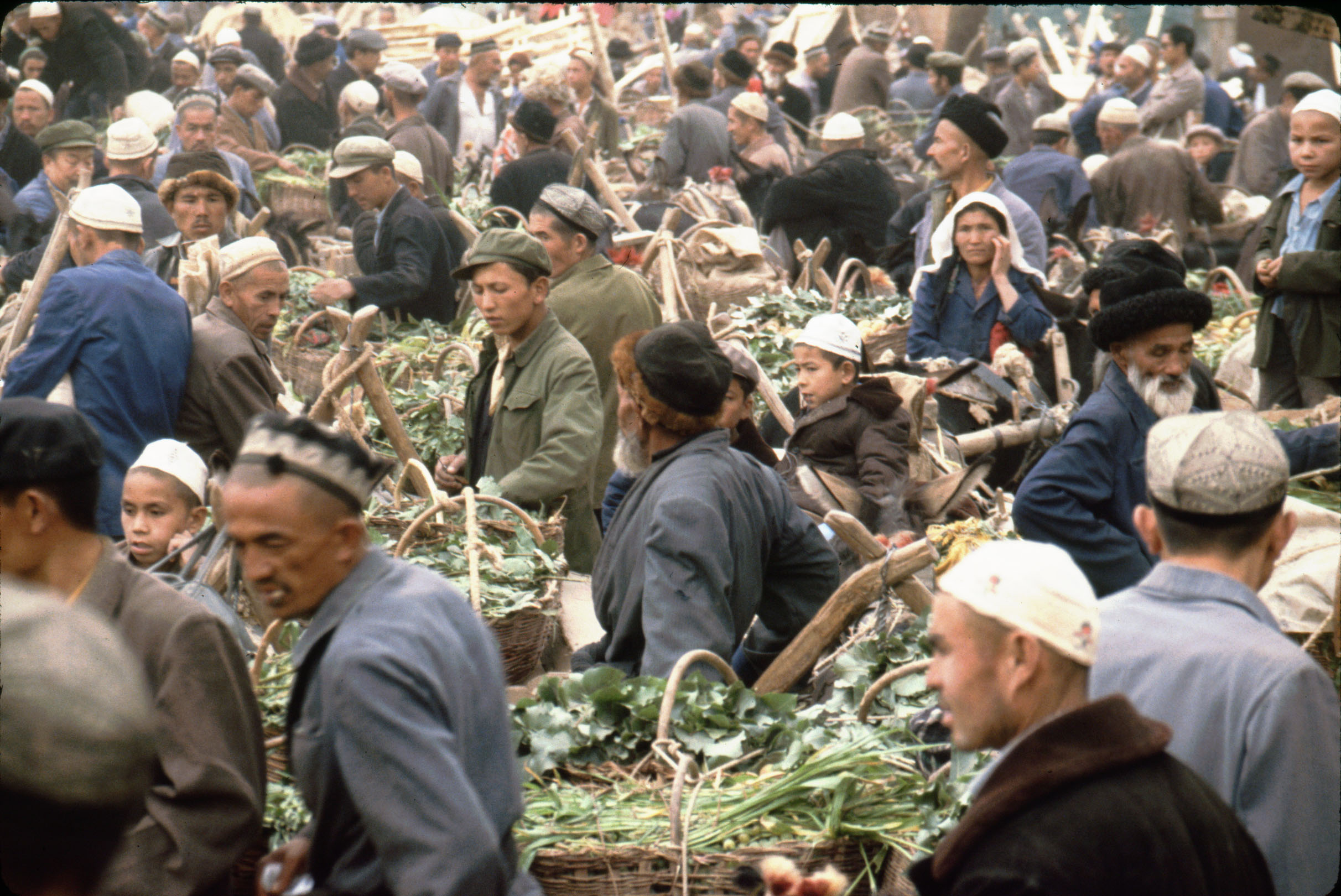 People selling goods at open air bazaar; Kashgar, Xinjiang, China. An example of private enterprise within the communist system.